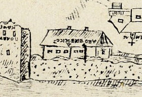 Viciebsk in 1664, drawing